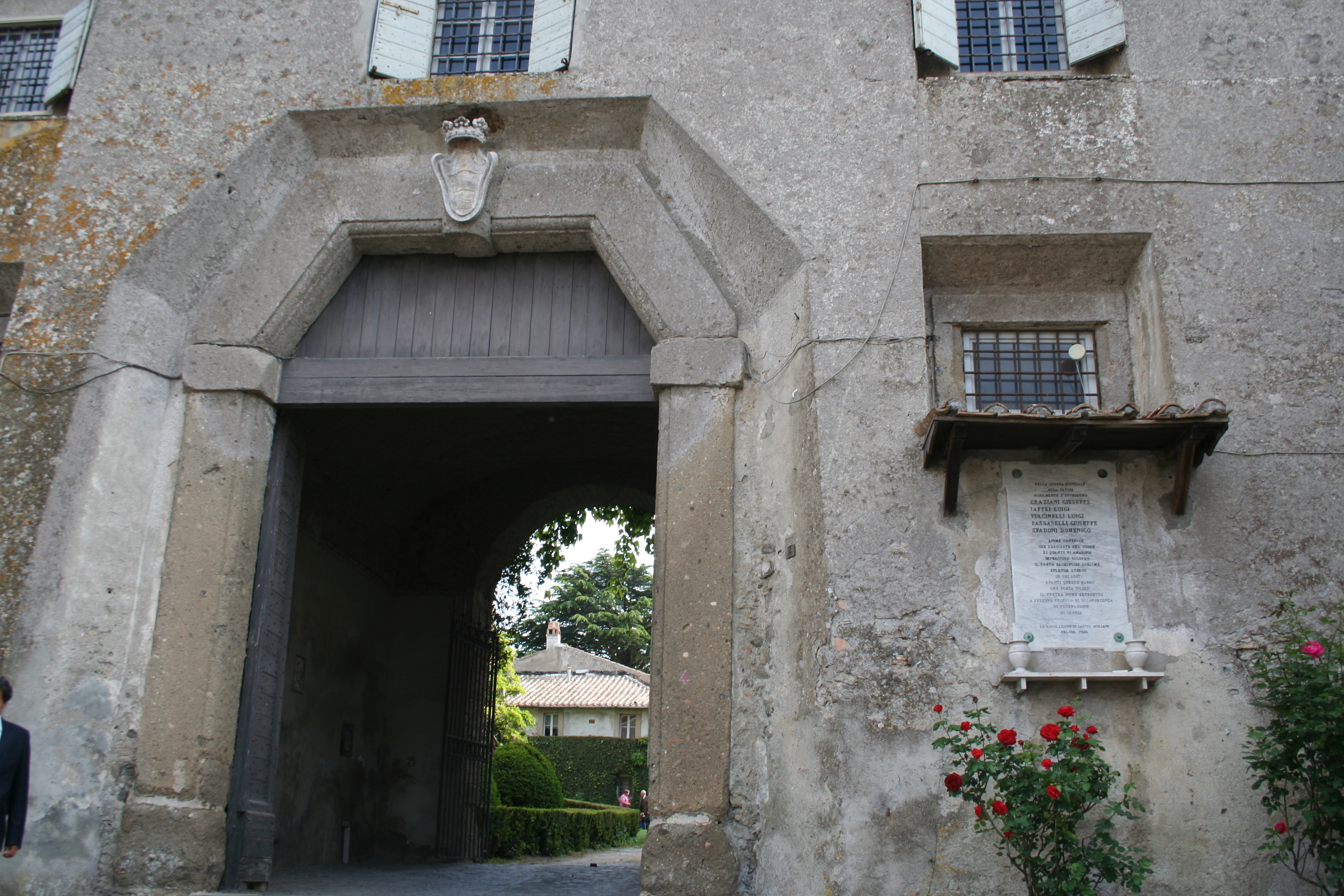 Palazzo Patrizi